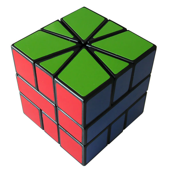 A Square-1 in its solved configuration. Note that this puzzle has an aftermarket set of stickers, but the colors and arrangement are identical to those of the original puzzle.